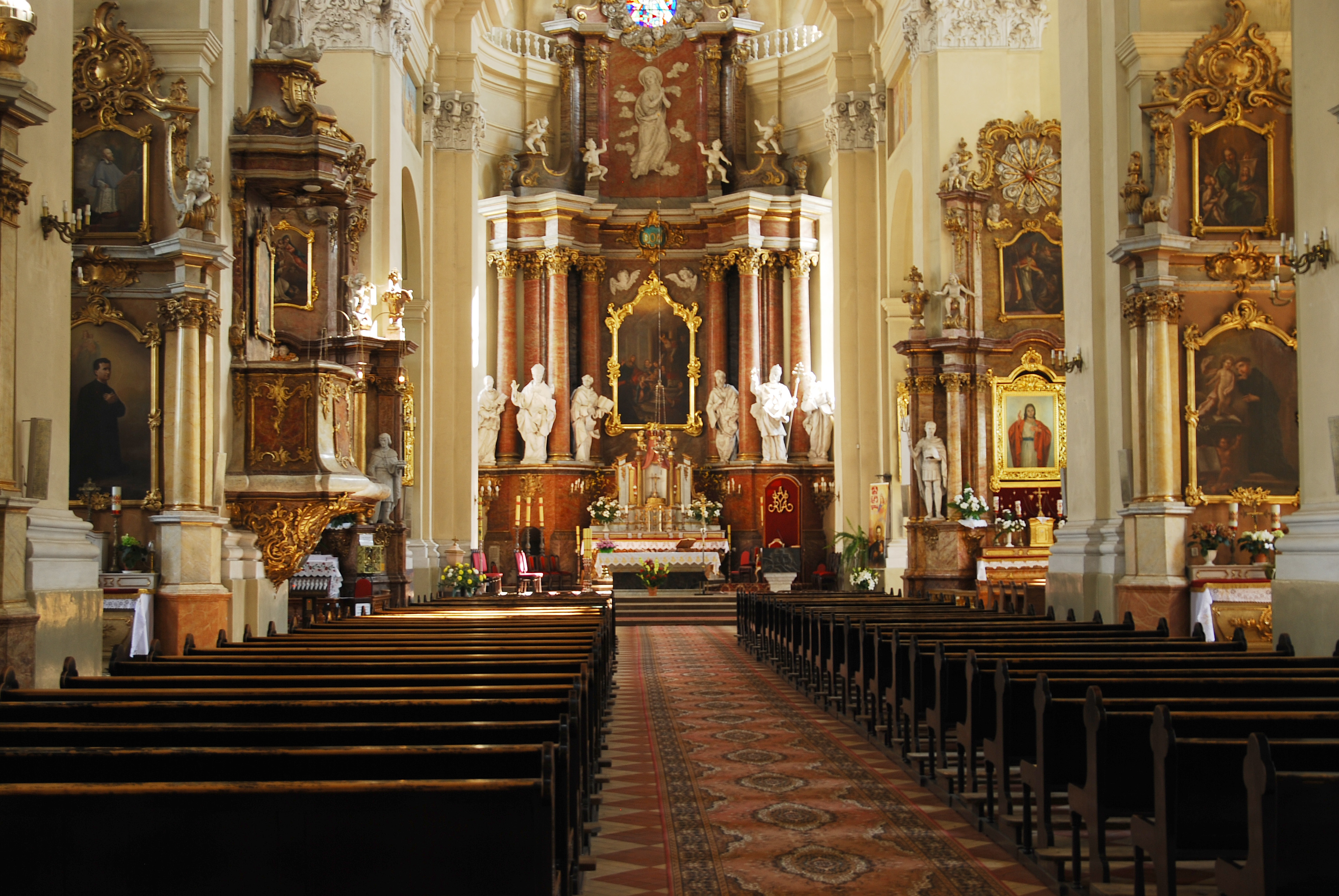 This photo from Podlaskie Voievodeship was taken during Polish Wikiexpedition 2009 set up by Wikimedia Polska Association. The making of this document was supported by Wikimedia Polska. Wnętrze Sanktuarium Maryjnego w Różanymstoku